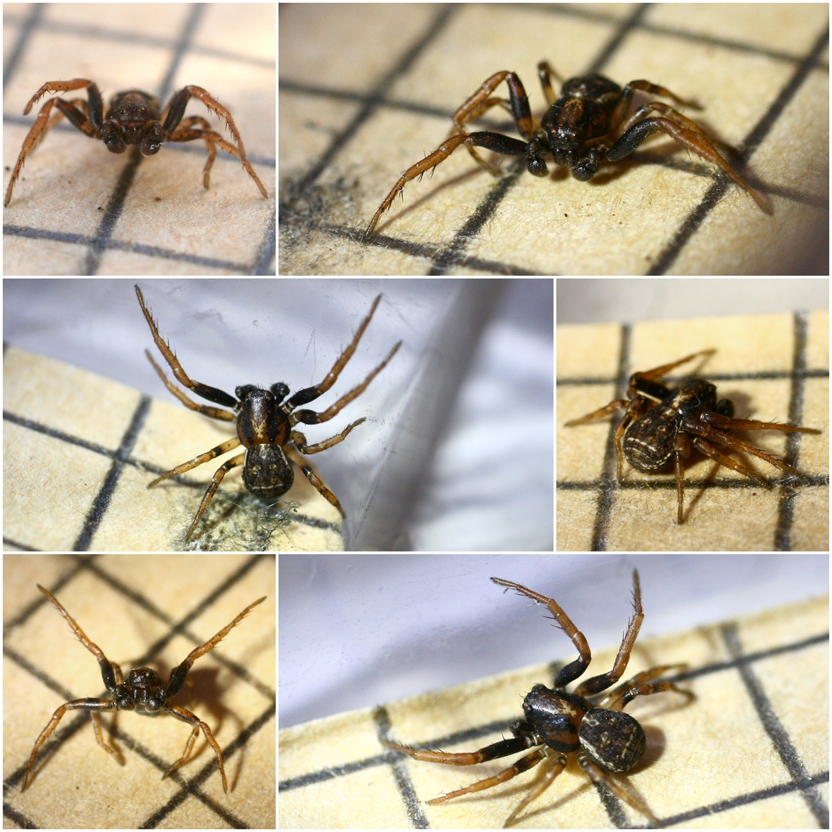 Ozyptila trux (Thomsidae). Male, from leaf litter at wood edge. 3.2mm long. Id based on palps. A bit early in the season for mature males. Bricket Wood Common, Hertfordshire, 29.03.2012. More Info... Species Summary from Spider Recording Scheme Map from NBN Gateway Pavouci CZ Jorgen Lissner - male, female